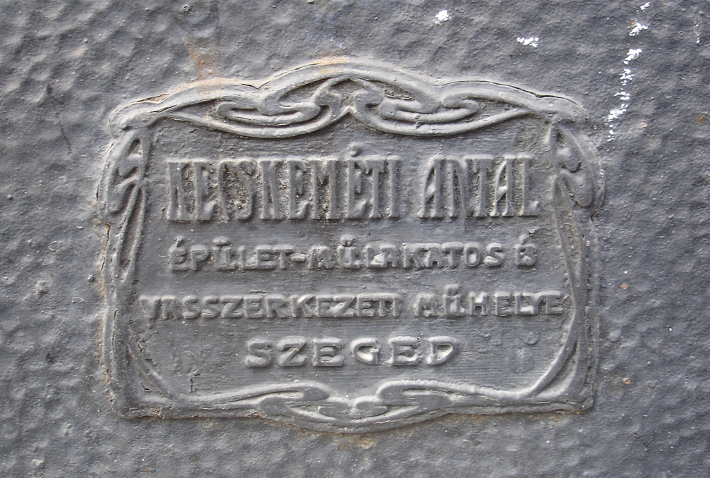 Antal Kecskeméti, Szeged, forged steel work, emblem